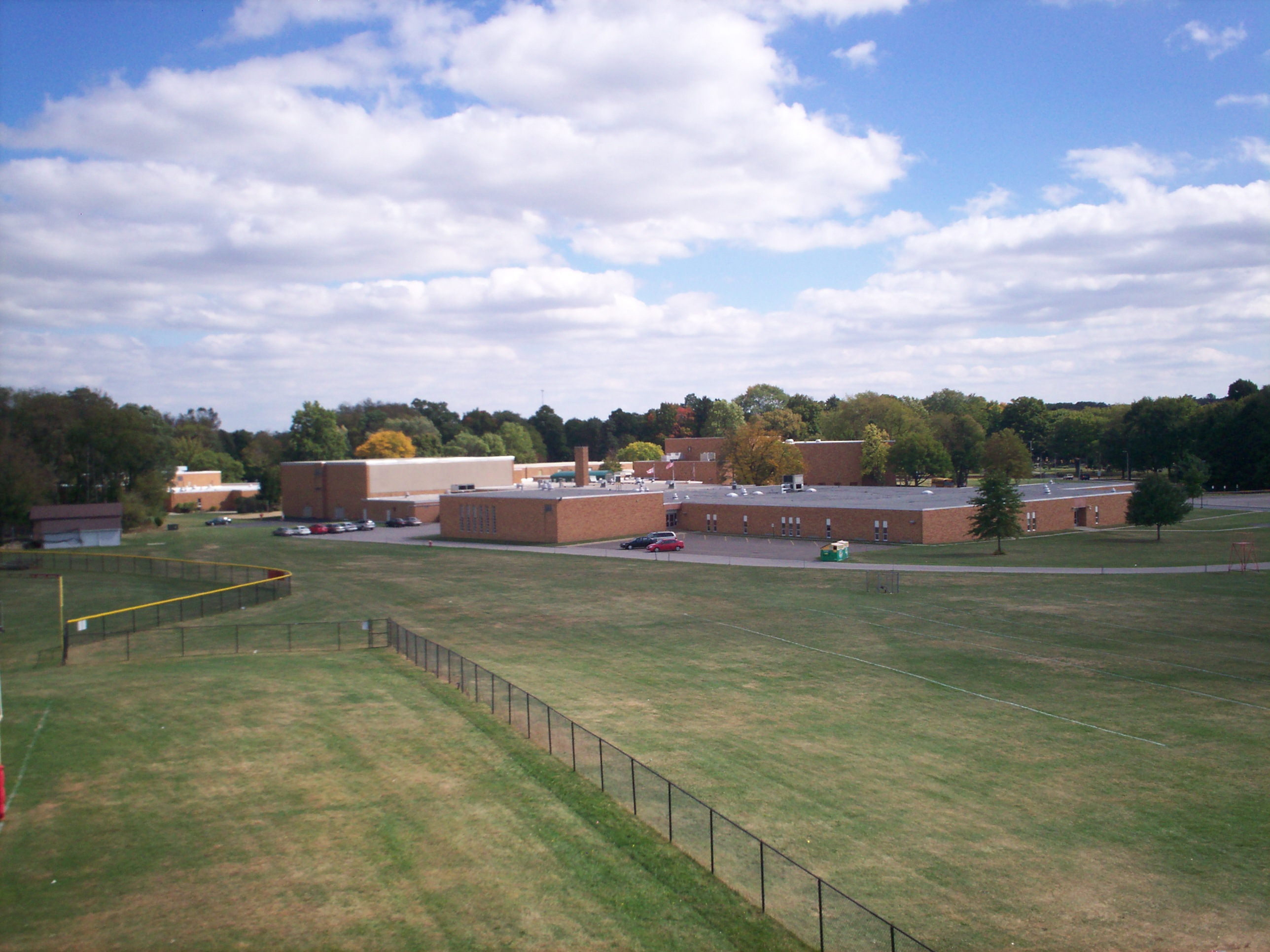 Theodore Roosevelt High School in Kent, Ohio, USA, as seen from the football stadium looking east-southeast.